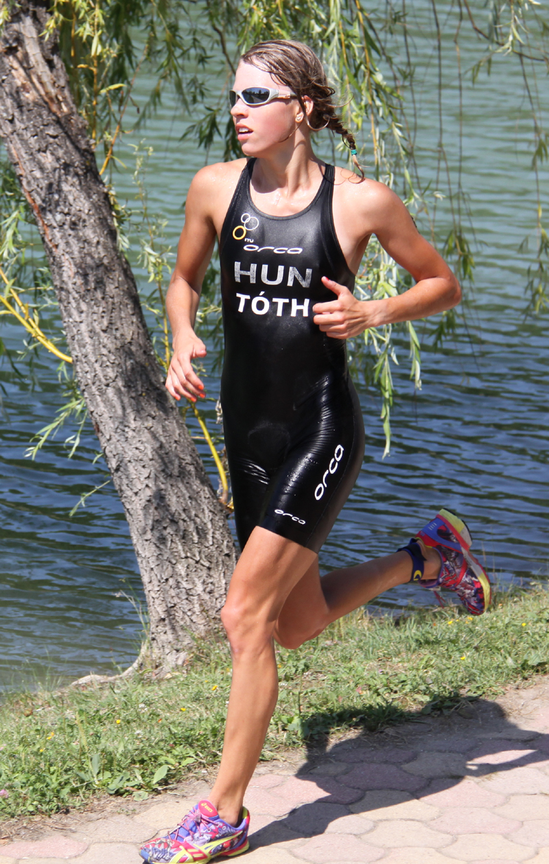 Zsófia Tóth Triathlon World Cup Tiszaújváros